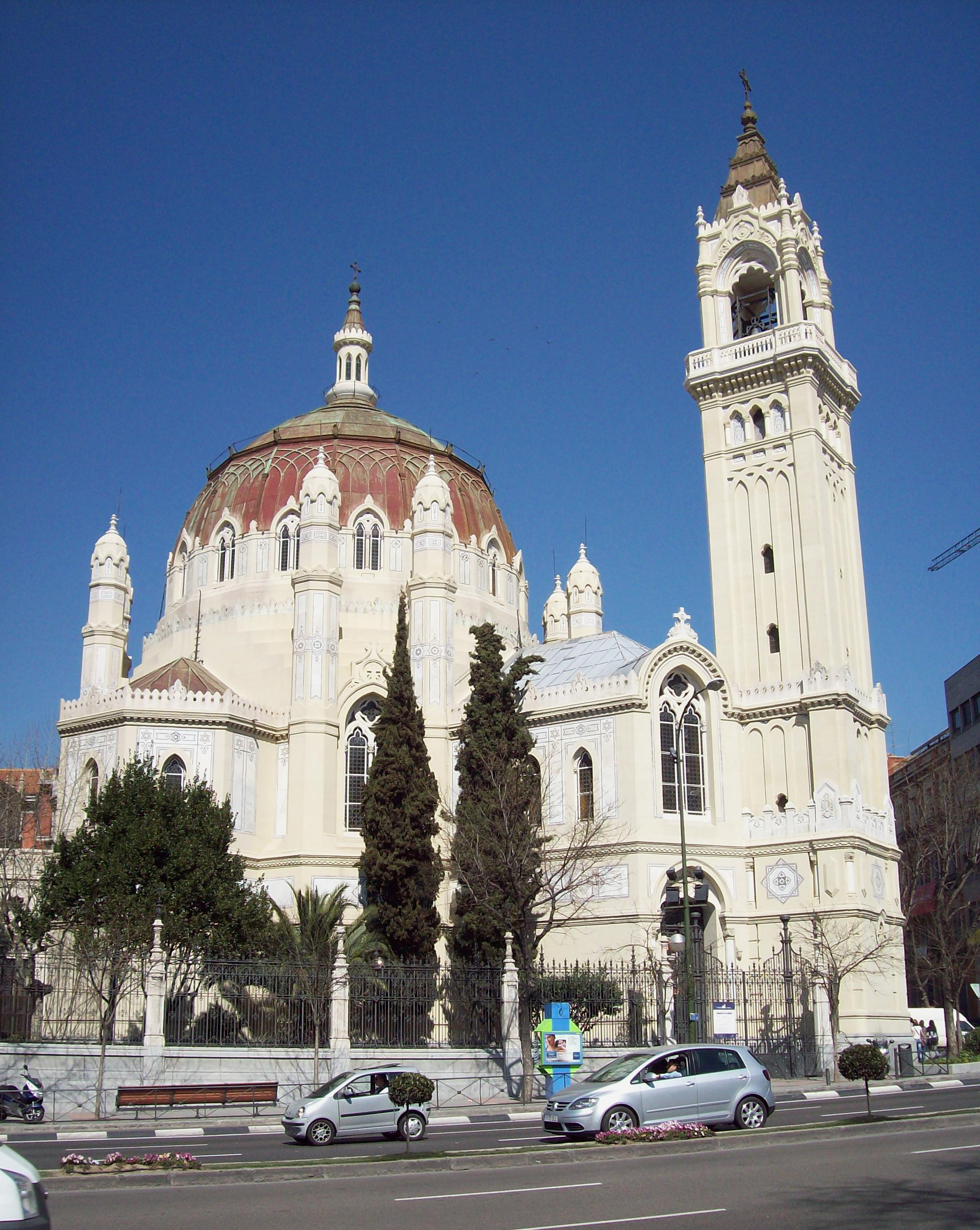 Façade of Iglesia de San Manuel y San Benito (church) in Madrid (Spain).